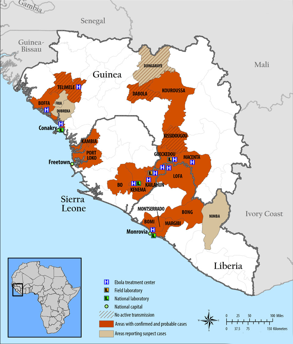 This is a map from a government publication on the spread of ebola in Guinea Sierra Leone as of June 2014